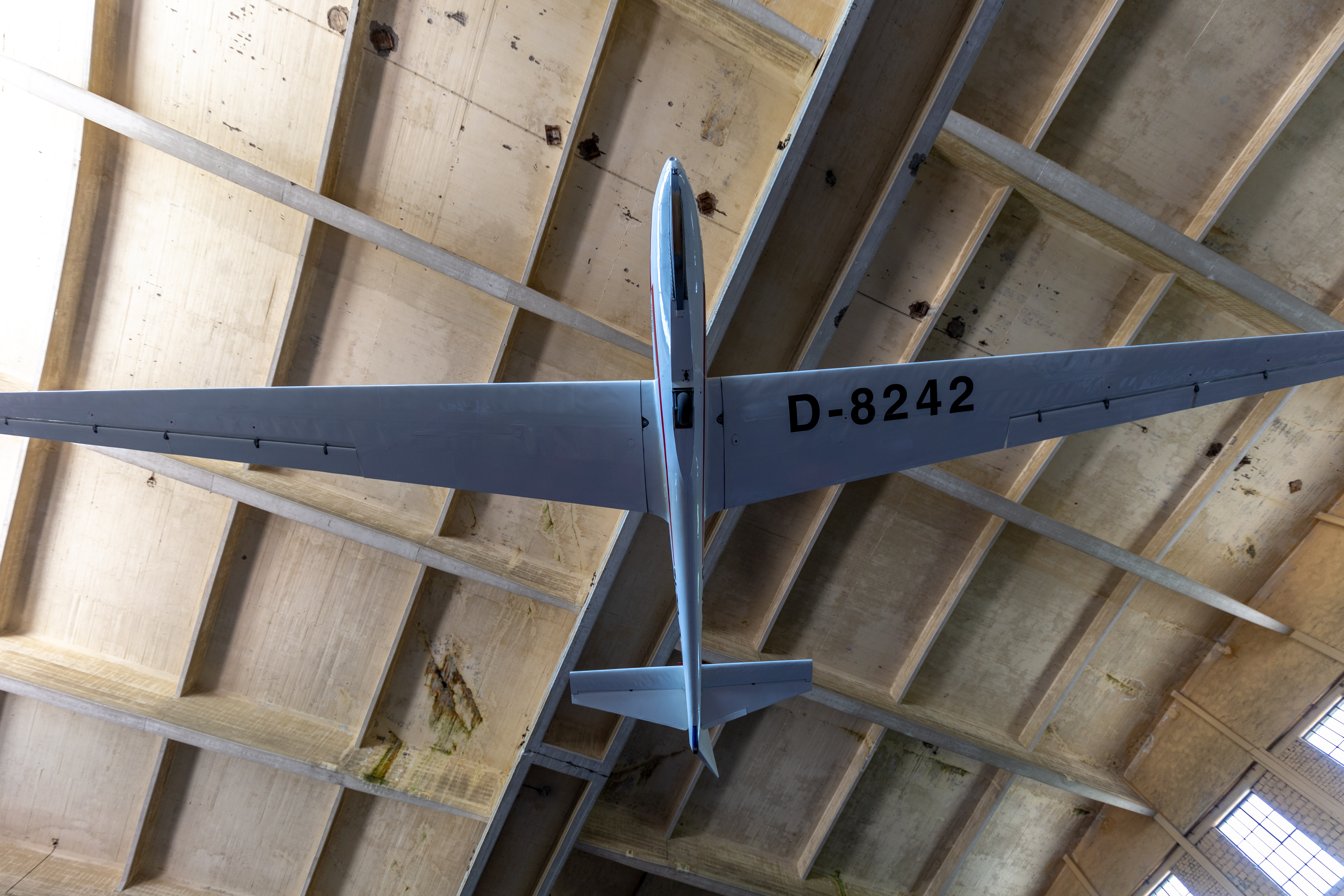 Pfingsttreffen Pütnitz 2018